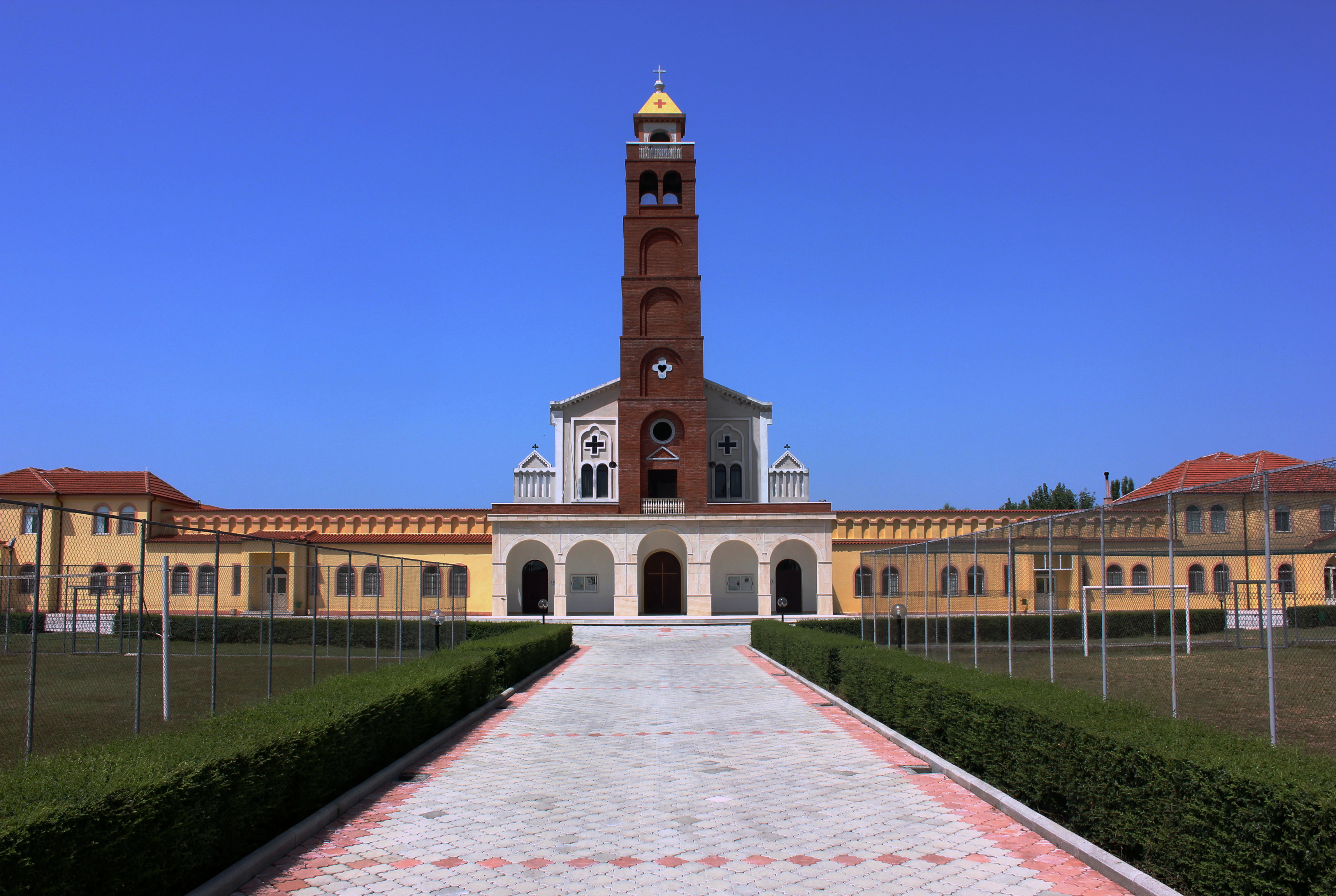 Church of Fushë-Kuqe